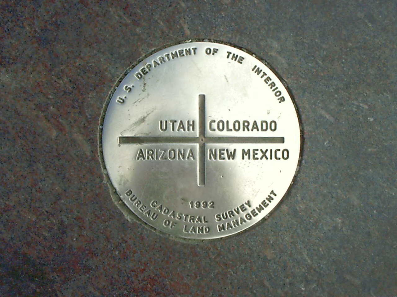 Plaque that marks Four Corners, the only state quadripoint in the United States; where Arizona, Utah, Colorado and New Mexico meet.